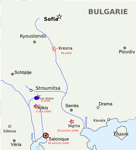 Map of the military operations between Greek and Bulgarian military forces during the Second Balkan War in 1913.